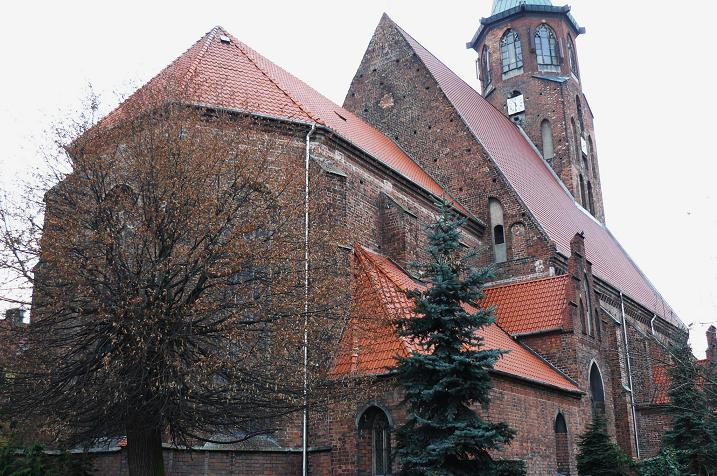 Church in Scinawa. Lower Silesian Voivodeship.